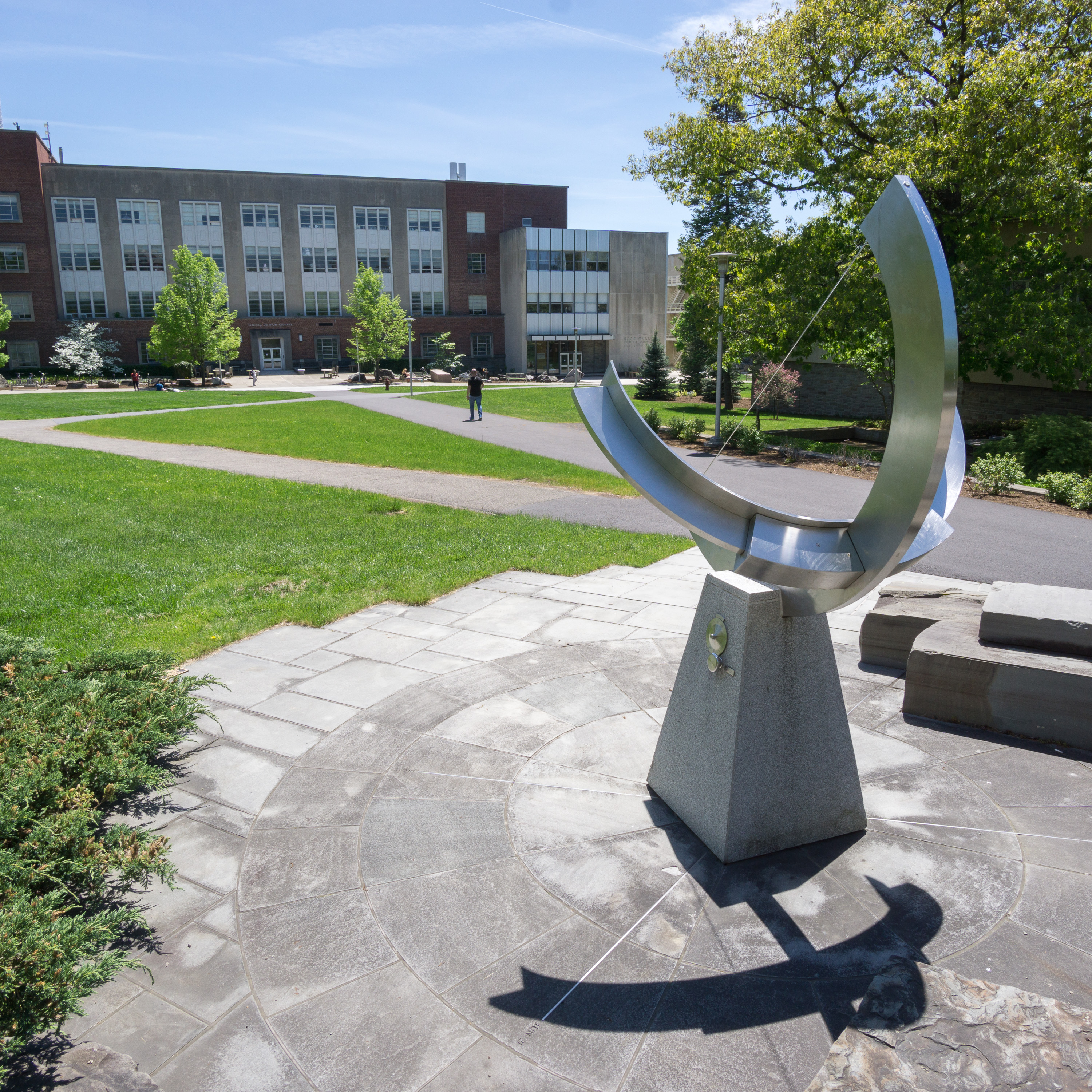 Joseph N. Pew Sundial, Engineering Quad. Thurston Hall in the background. Cornell University, Ithaca, NY